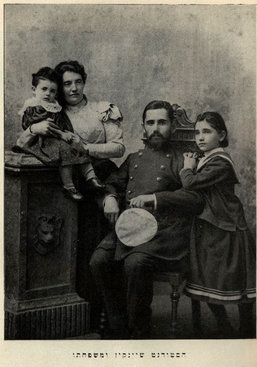 Menachem Sheinkin as a student